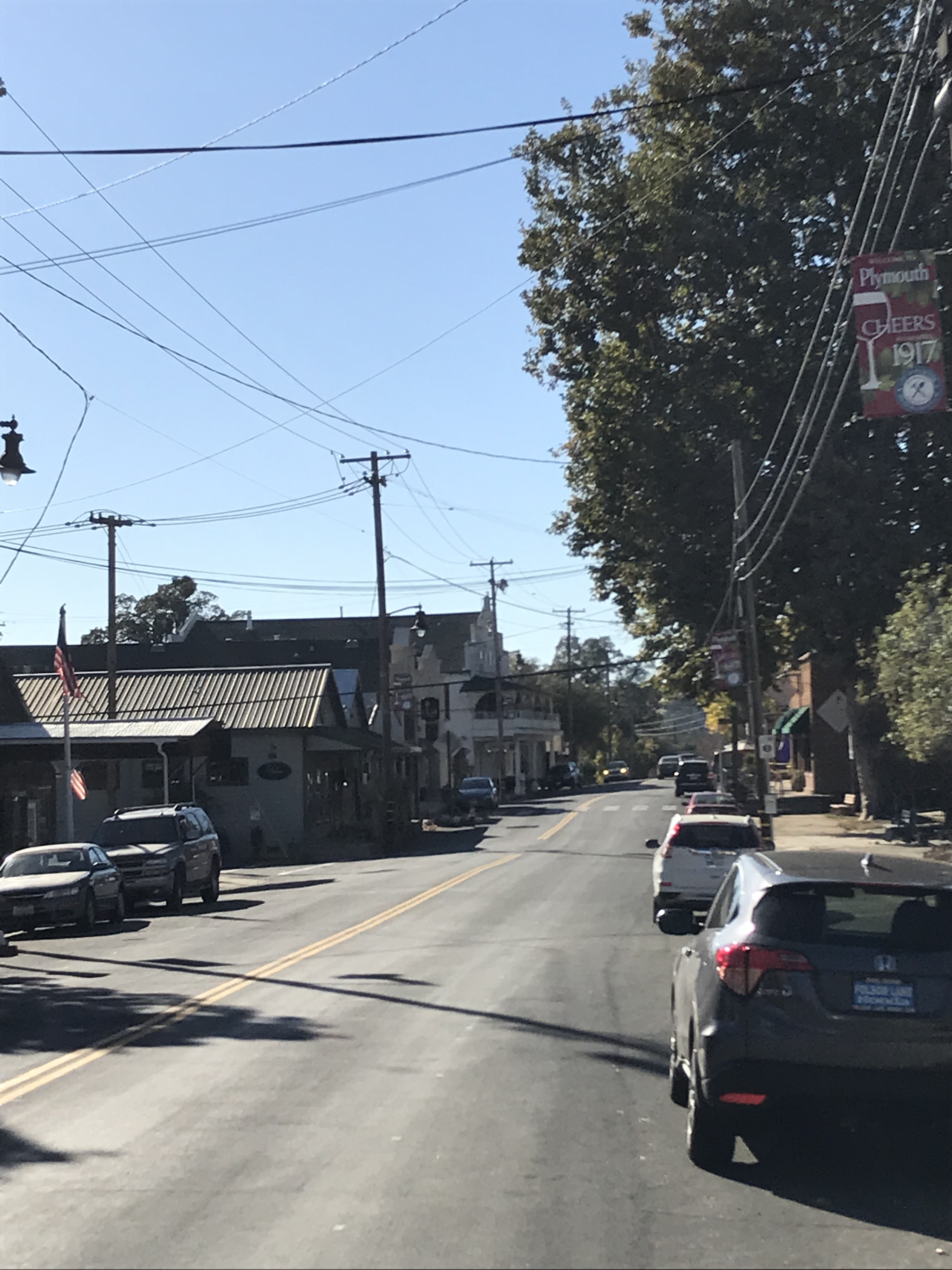 This is a picture of Main Street in Plymouth, California looking west.